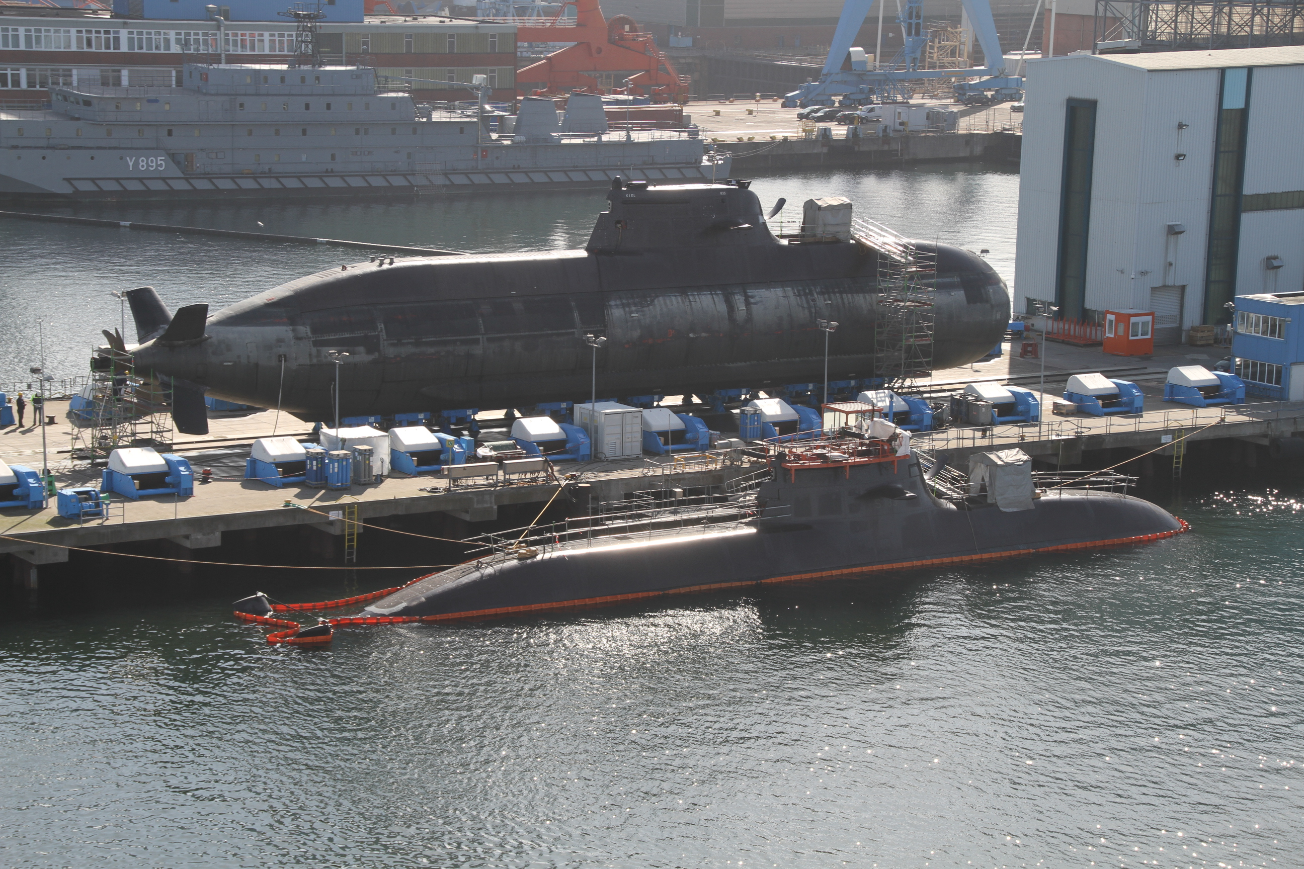 Image of the HDW shipyard, a major naval shipyard in the city of Kiel - north Germany. This is an important constructor of submarines of NATO.